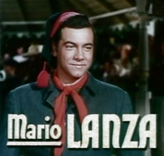 Cropped screenshot of Mario Lanza from the trailer for the film The Toast of New Orleans.